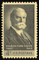 1962 stamp honoring Charles Evan Hughes